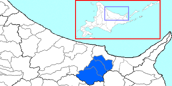 The location of Abashiri District in Abashiri Subprefecture, Hokkaido Prefecture, Japan.